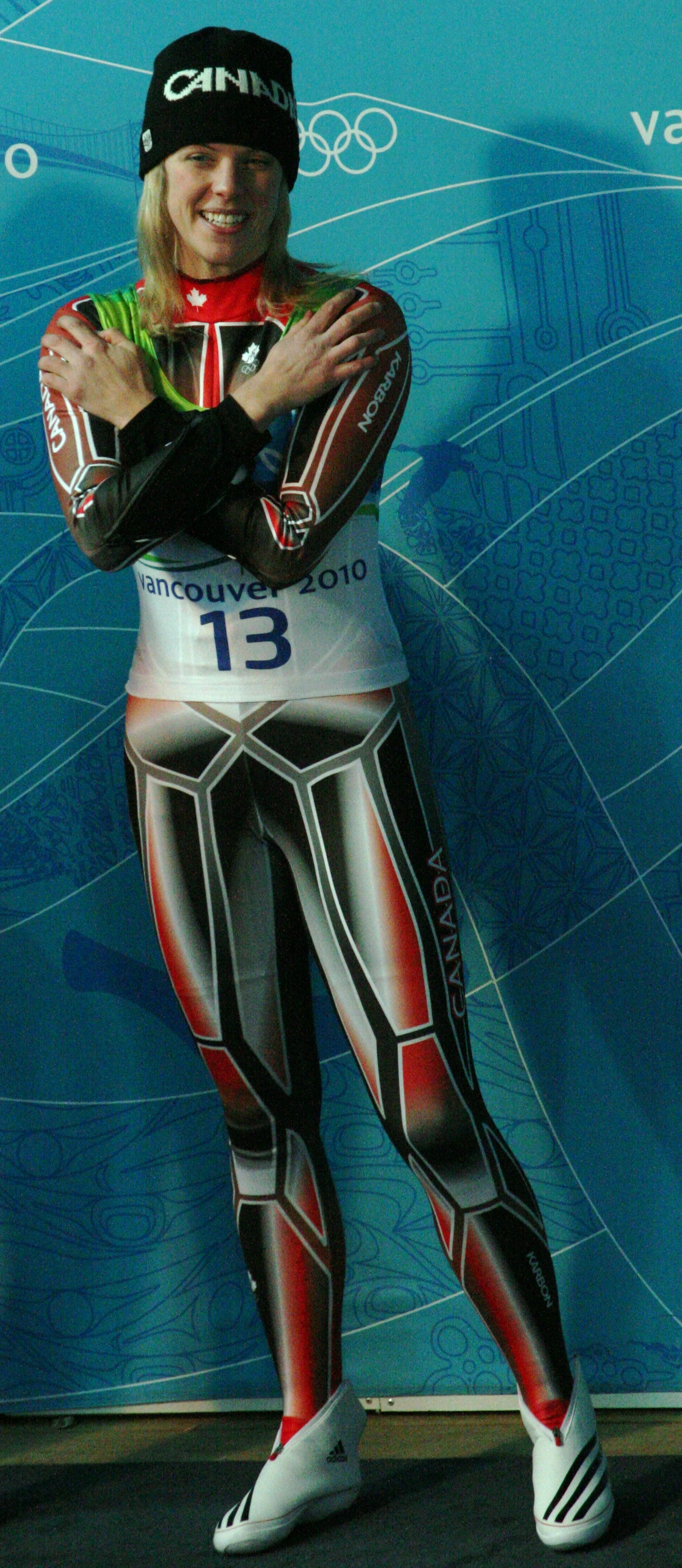 Canadian athlete Regan Lauscher at the 2010 Vancouver Winter Olympics